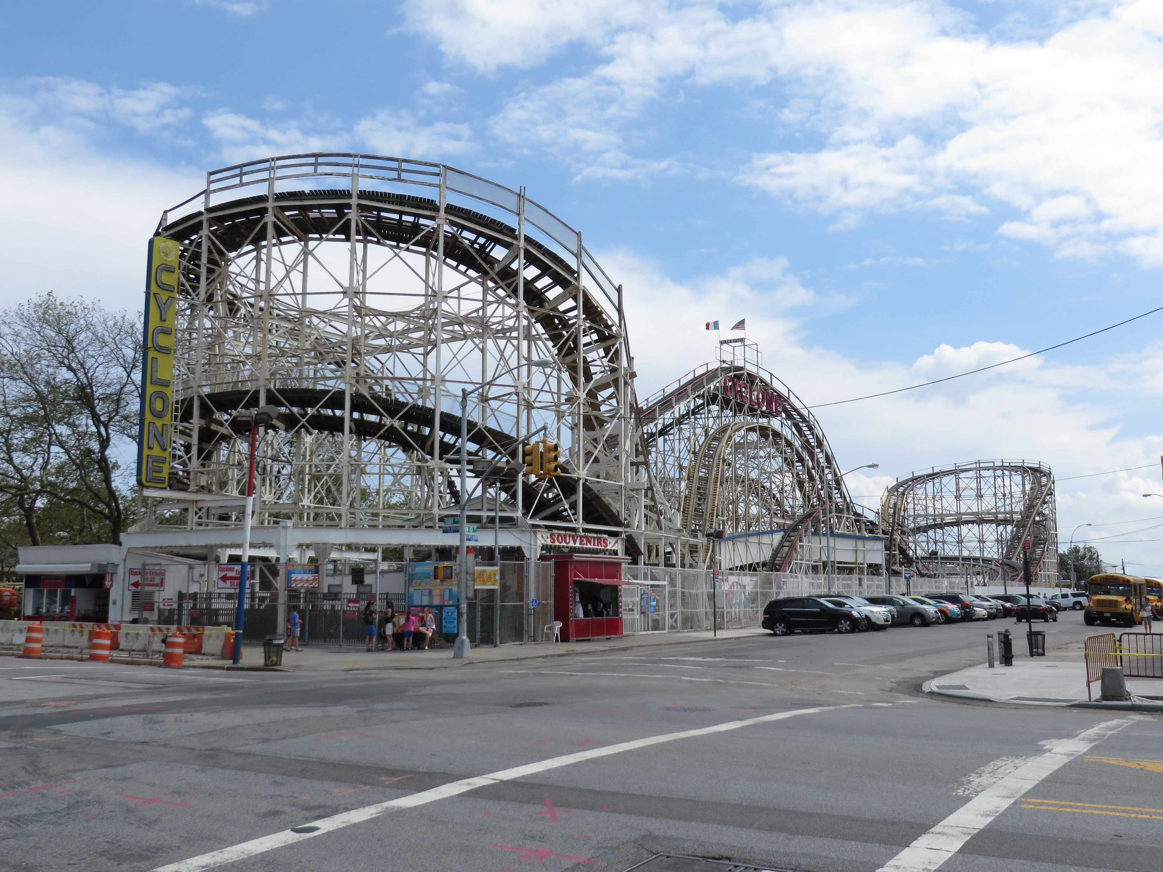 Cyclone Roller Coaster at Luna Park, 1000 Surf Avenue, Coney Island, Brooklyn, New York.